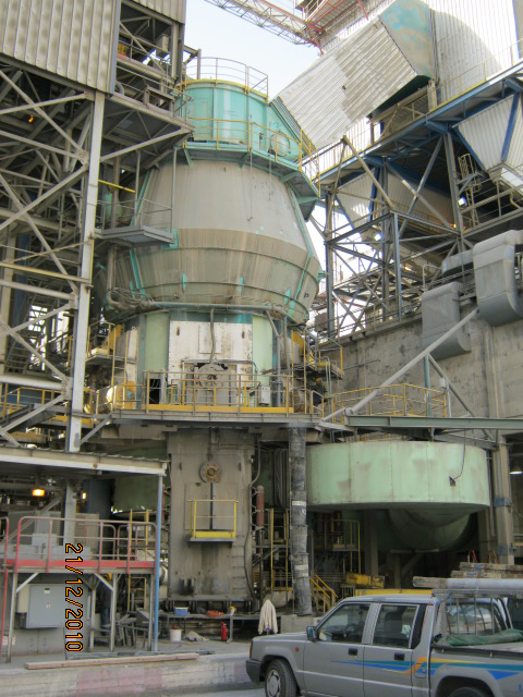 vertical cement mill - Nesher cement, Ramla, Israel